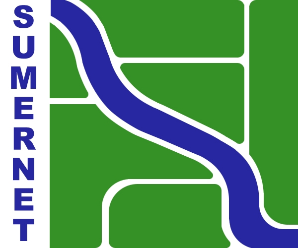 The Logo of SUMERNET (Sustainable Mekong Research Network), depicting Mekong River crisscrossing riparian countries